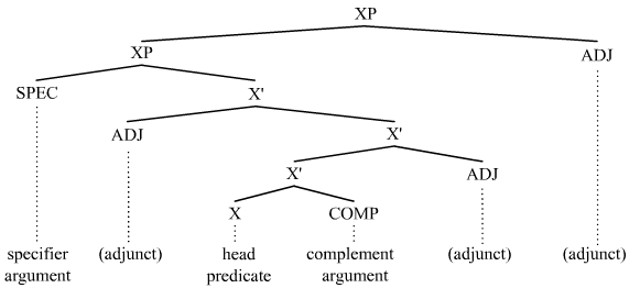 Argument picture 1